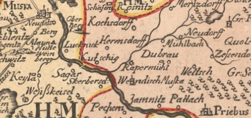 Crop from the map Image:Priebussischer Creis nebst Herrschaft Muska.png.